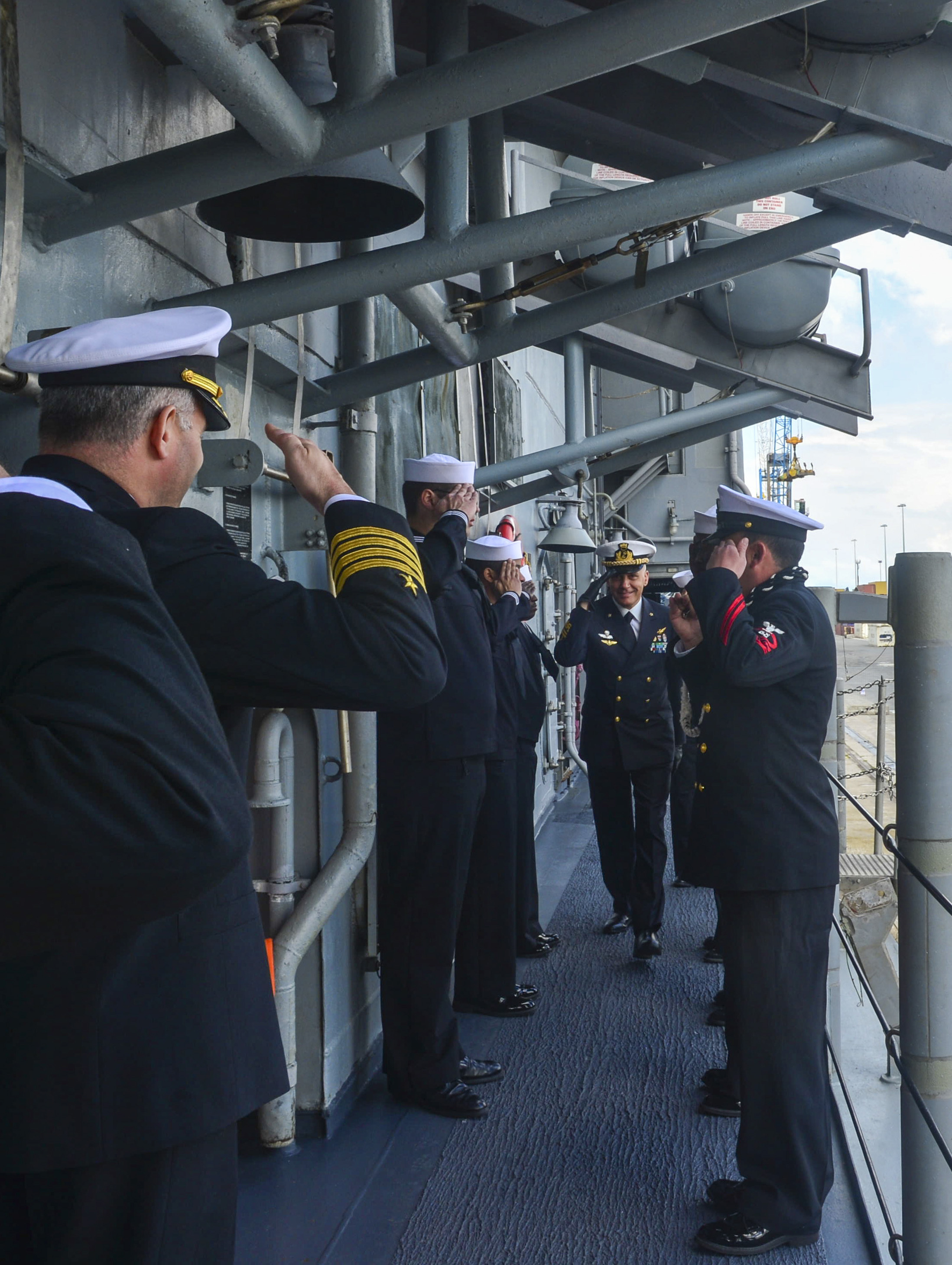 Italian Rear Adm. Giuseppe Cavo Dragone, superintendent of the Italian Naval Academy, receives honors as he is welcomed aboard the guided-missile cruiser USS Monterey (CG 61). Monterey, homeported in Norfolk, Va., is deployed in support of maritime security operations and theater security cooperation efforts in the U.S. 6th Fleet area of responsibility. (U.S. Navy photo by Mass Communication Specialist 3rd Class Billy Ho/Released)